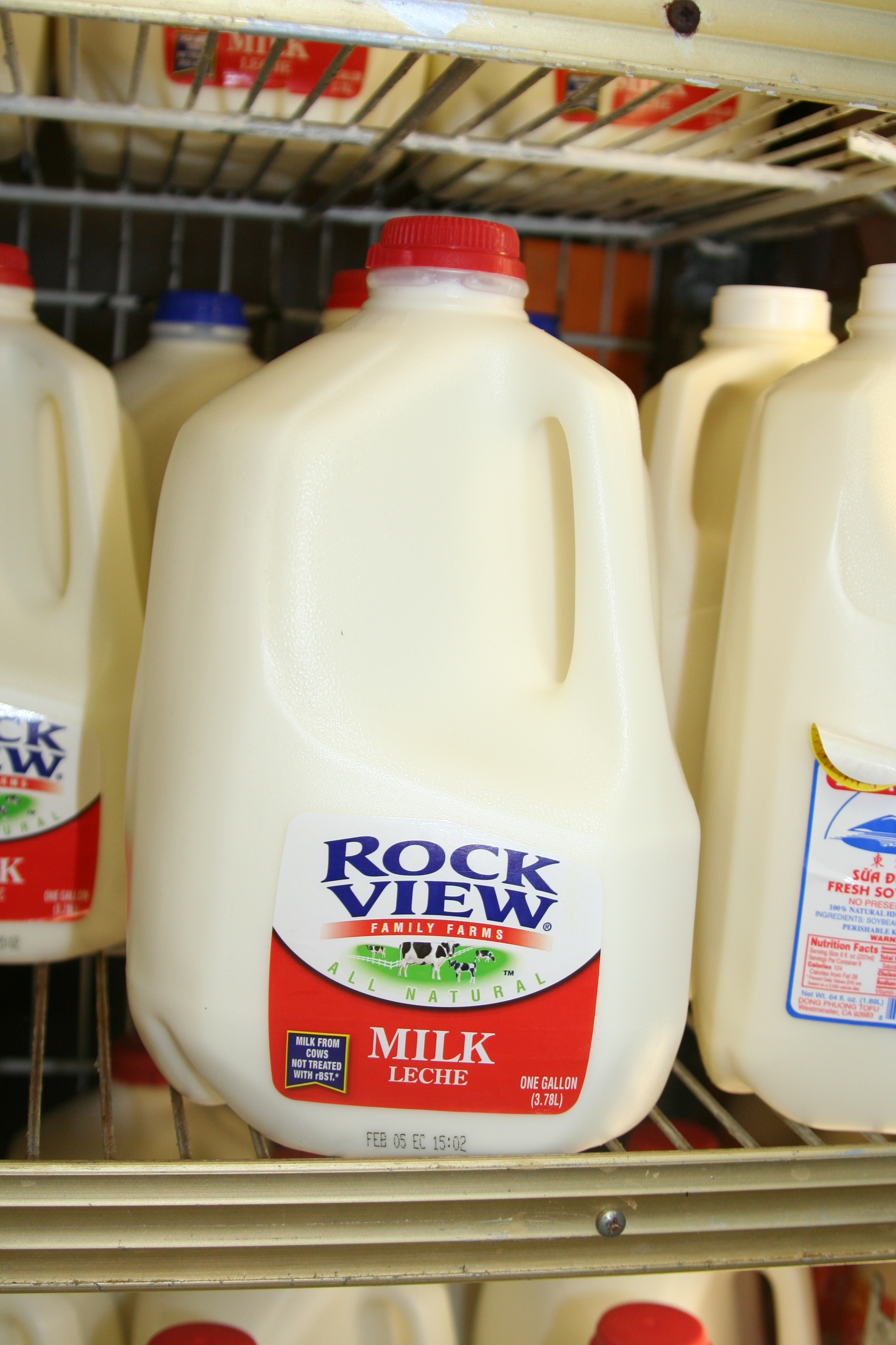 A "traditional" gallon milk jug